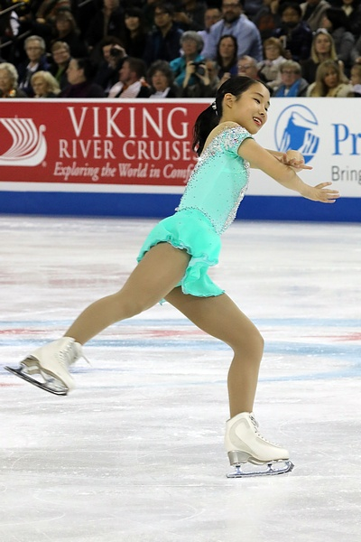 Photos - Skate America 2016 - Ladies (Mai MIHARA JPN - Bronze Medal)